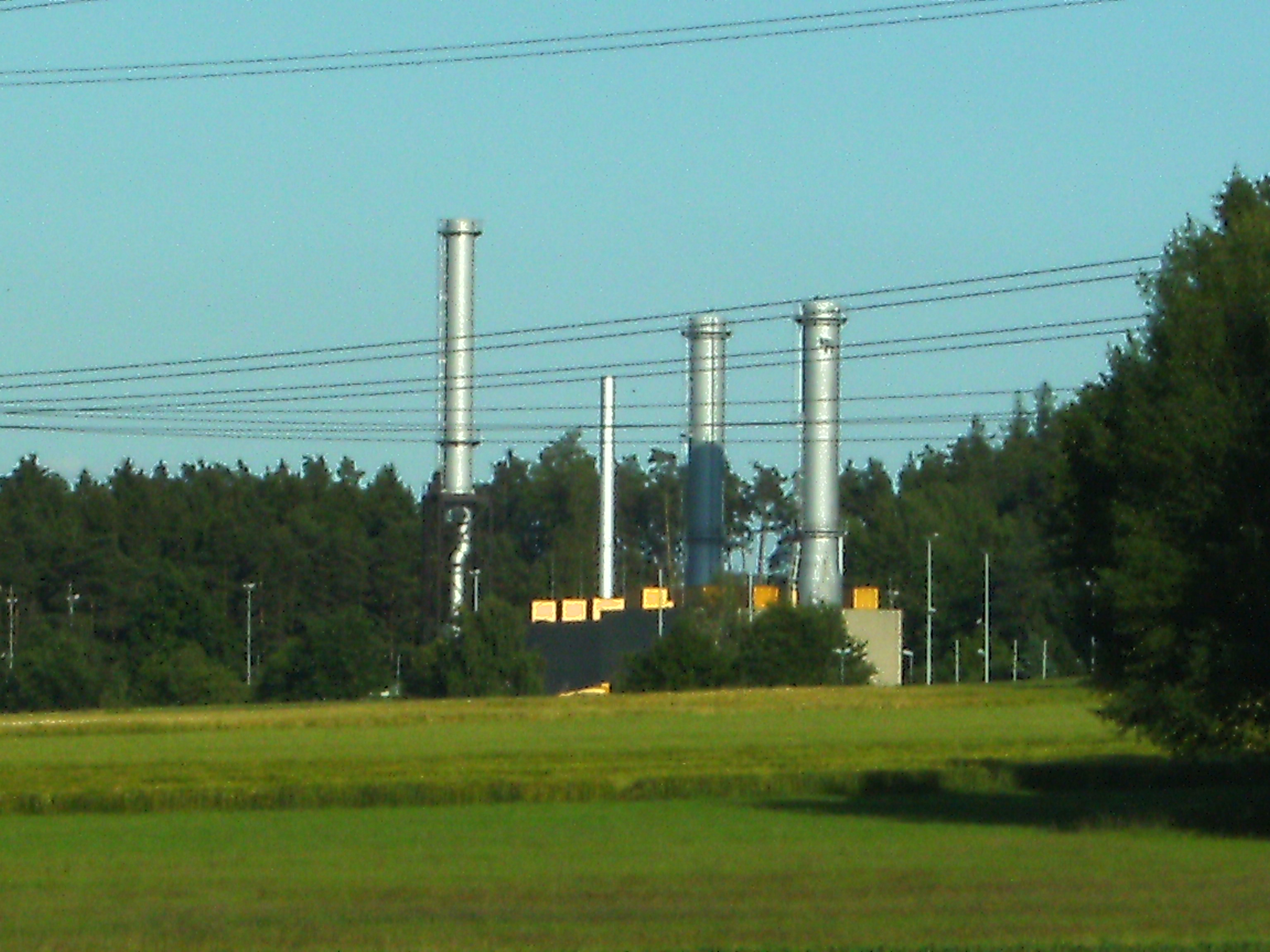 Rothenstadt compressor station, MEGAL natural gas transport unit in Rothenstadt, Bavaria, Germany